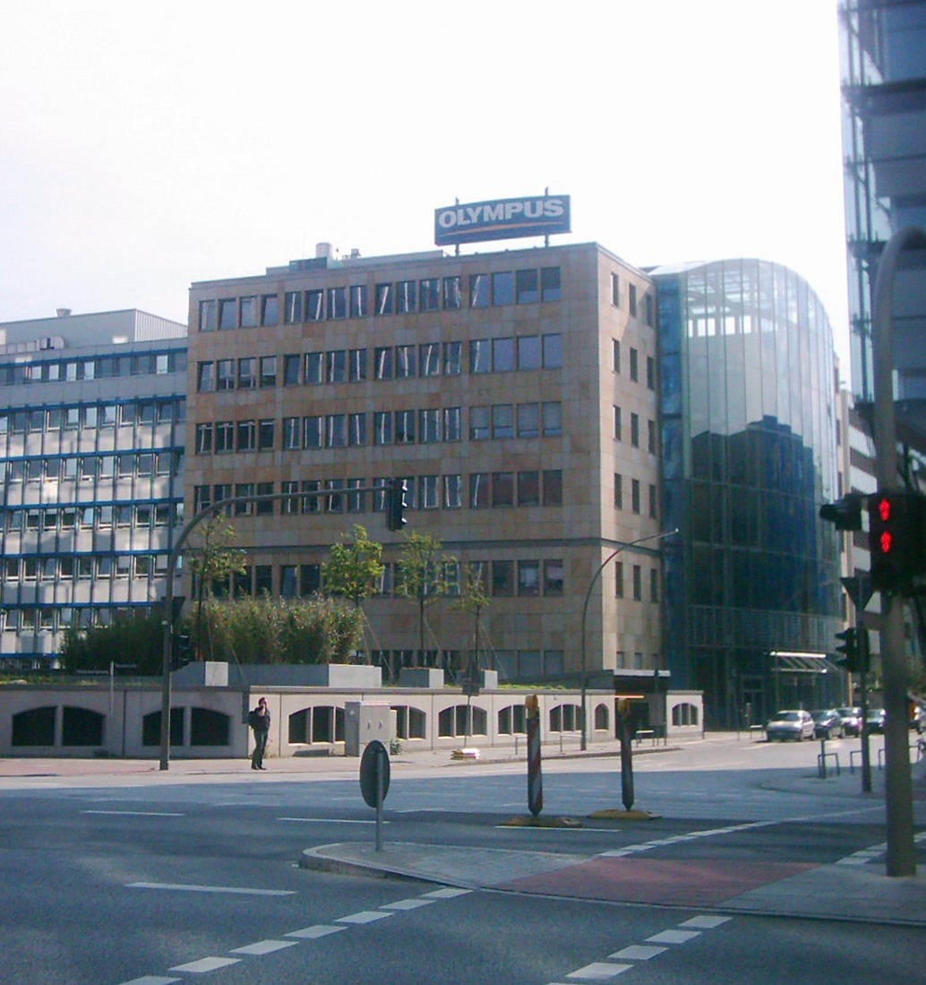 Olympus, Wendenstraße, Hamburg-Hammerbrook, Germany.